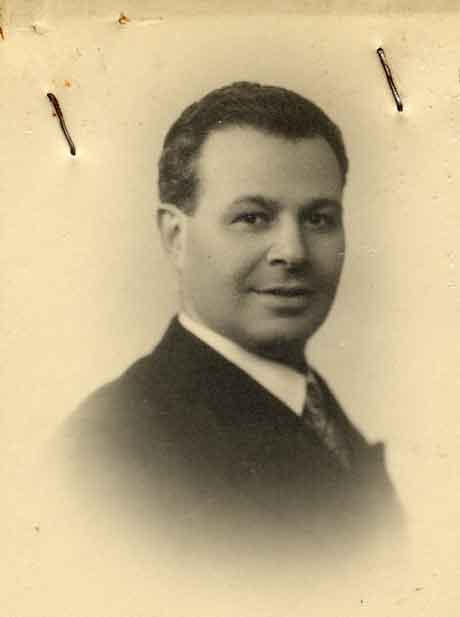 Photo of Ferruccio Valobra